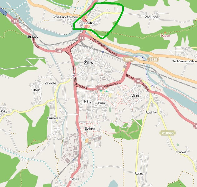 Zilina-Budatin map location